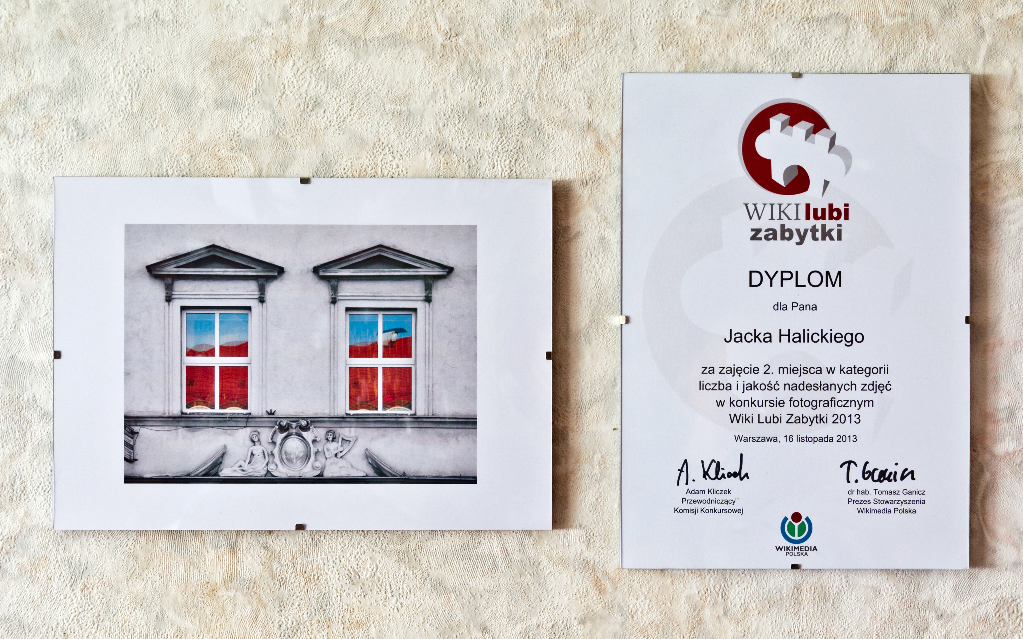 Picture and award for a large number of good quality images, in the contest Wiki Love Monuments 2013